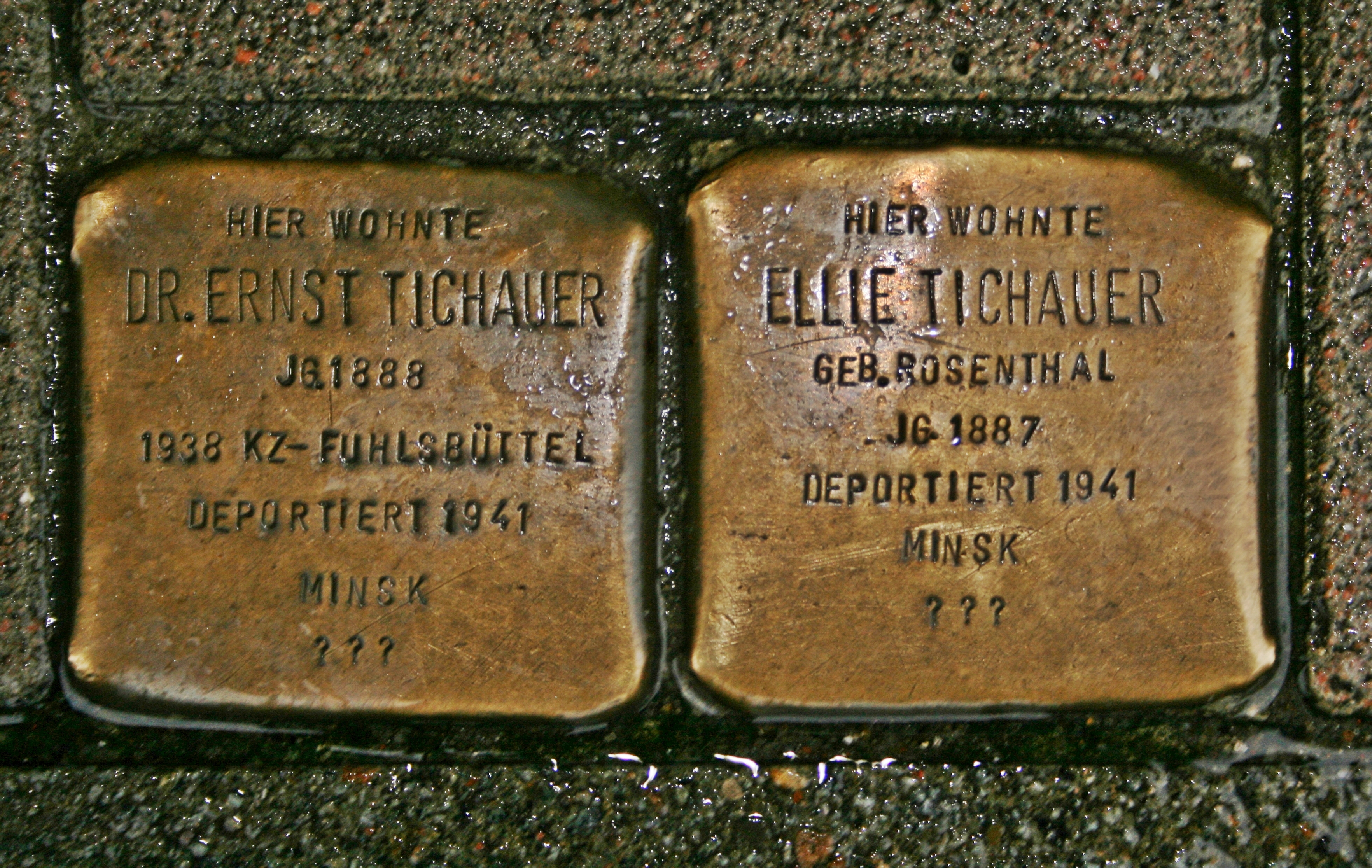 Stolpersteine for Ernst and Ellie Tichauer in Hamburg-Bergedorf, Alte Holstenstraße 61